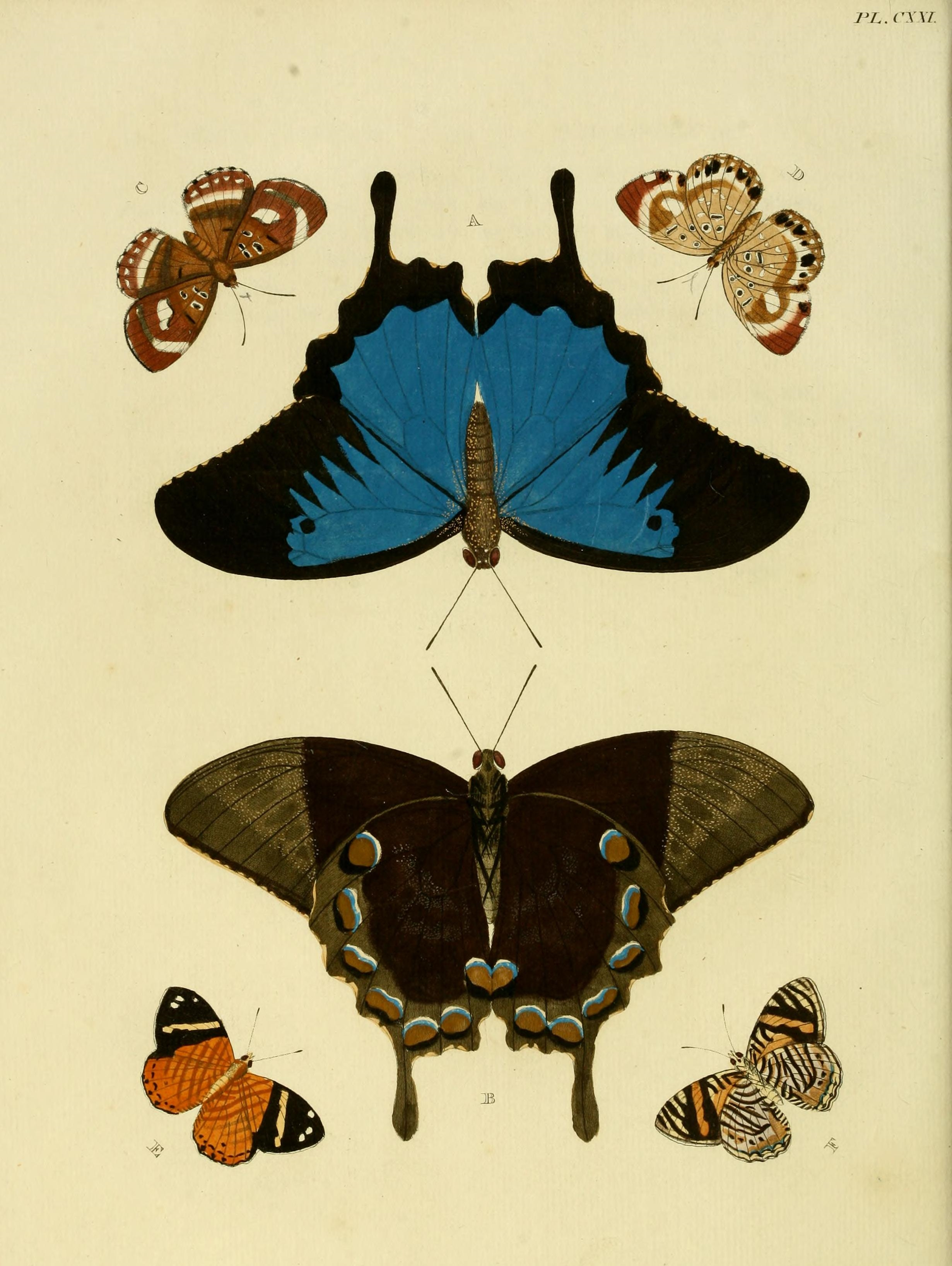 Plate CXXI A, B: "(Papilio) Ulysses" ( = Papilio ulysses), see Funet In register spelled as "ULISSES" C, D: "(Papilio) Tytia" ( = Synargis tytia, iconotype?), see Funet In register spelled as "TITIA" E, F: "(Papilio) Aceste" ( = Tigridia acesta), see Funet See Linnaean specimens, page 34: "Papilio (Nymphalis) aceste. See: Papilio (Nymphalis) acesta # 1949."